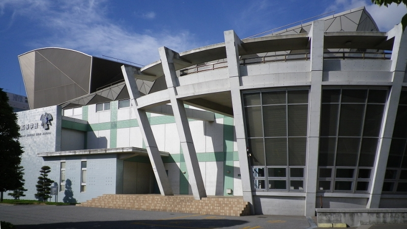 Makuhari Sohgoh High School